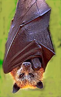 Golden crowned fruit bat (Acerodon jubatus) Released as GFDL by LDC,Inc. Foundation.